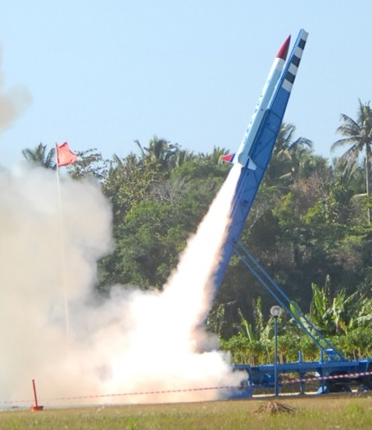 Test Fire of the RX-320 sounding rocket by the Indonesian National Institute of Aeronautics and Space